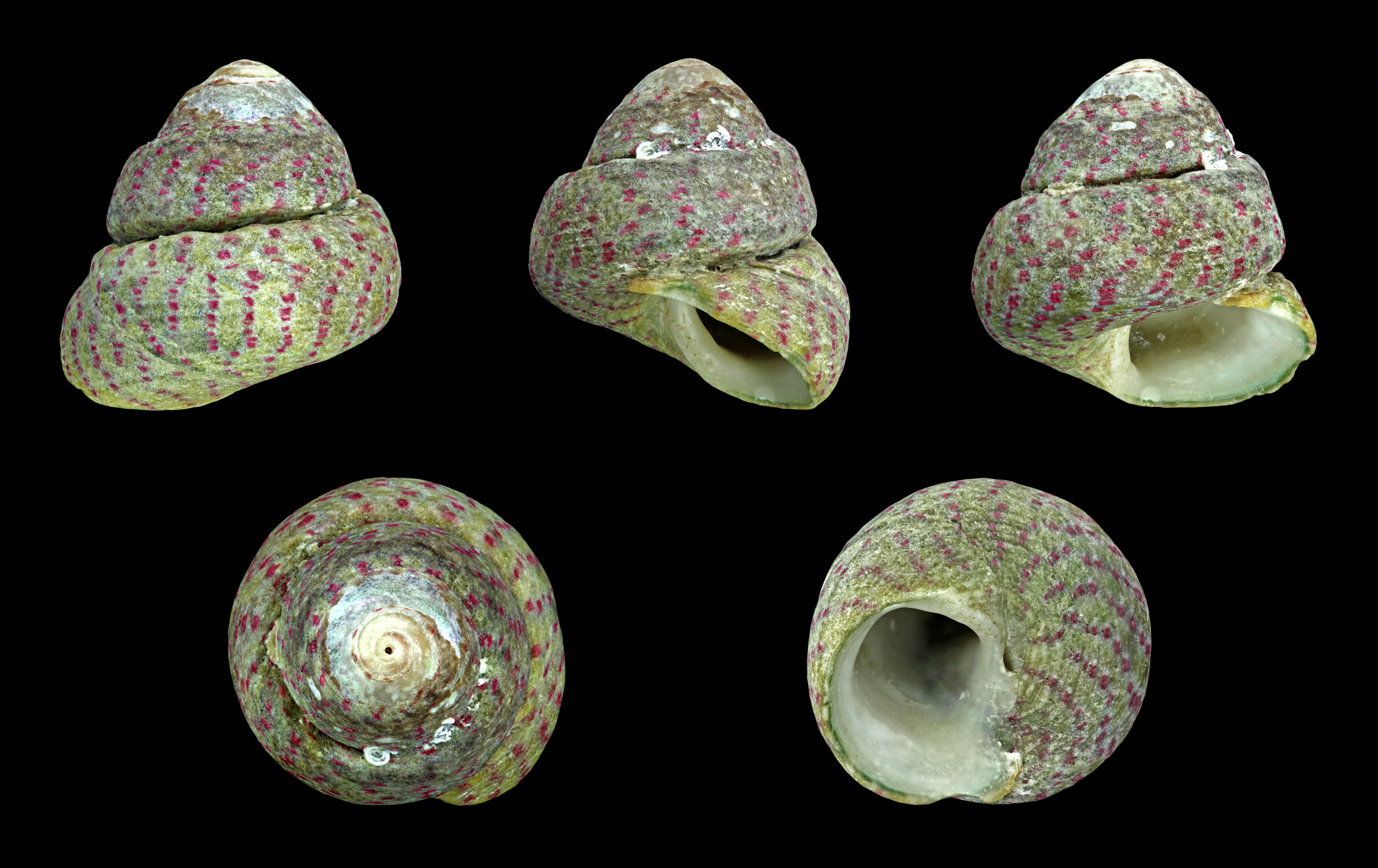 Divaricate Gibbula; Height 1.2 cm; Originating from Punta Corrente south of Rovinj, Croatia 45°3′54.67″N 13°38′18.36″E / 45.0651861°N 13.6384333°E; Shell of own collection, therefore not geocoded.